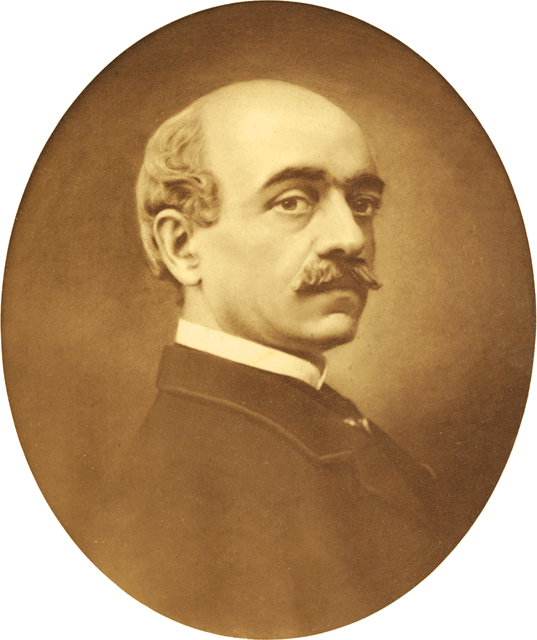 Nestor Heck - Portrait of Vasile Alecsandri